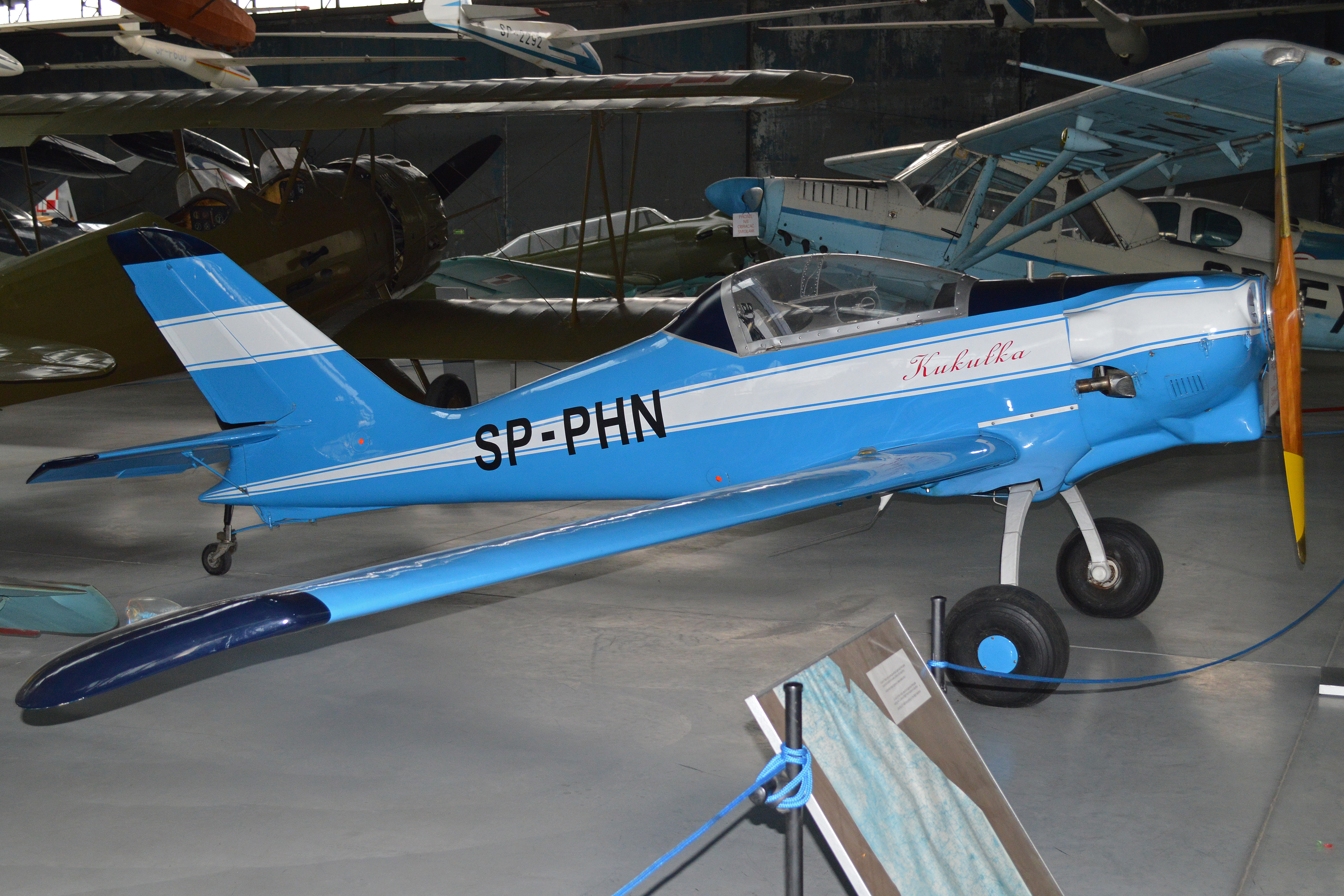 c/n T-026382. On display in the main display hangar at the Muzeum Lotnictwa Polskiego Krakow, Poland. 23-08-2013